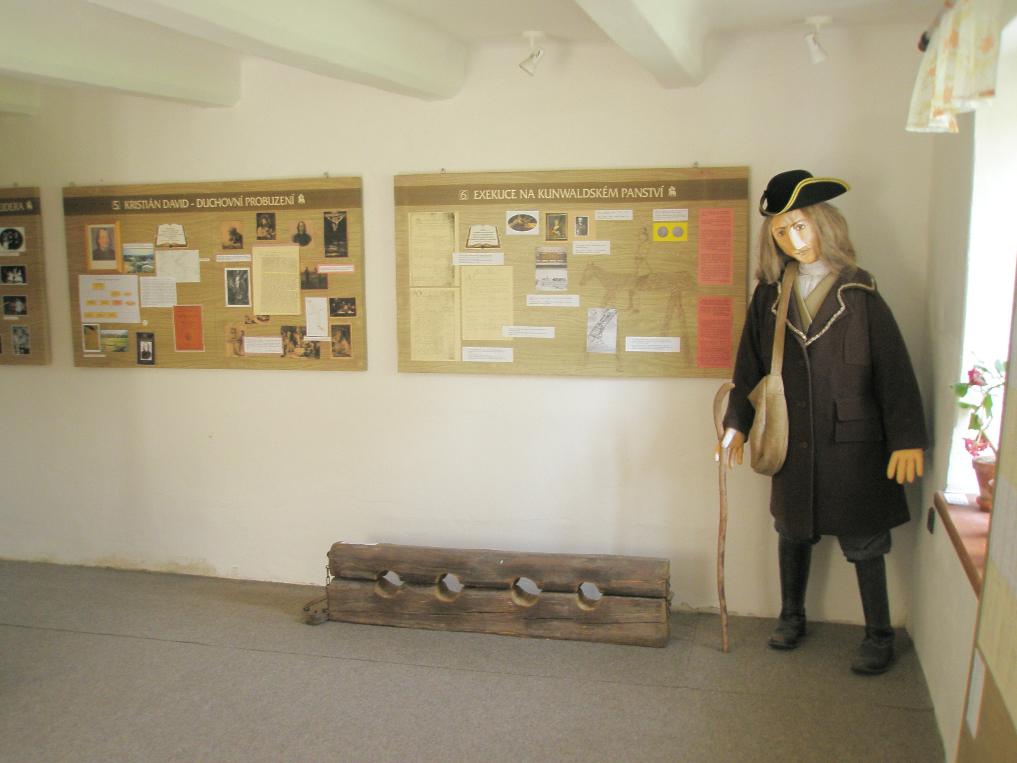 Museum of Moravian brethren in Suchdol nad odrou (Zauchtel, Zauchtenthal)